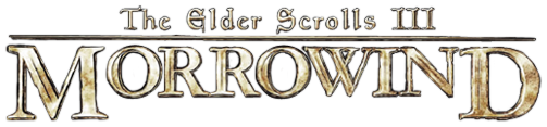 The text logo of The Elder Scrolls III: Morrowind